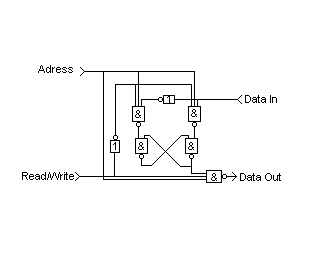 RAM architecture